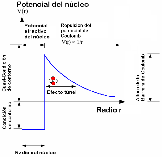 The coulomb barrier